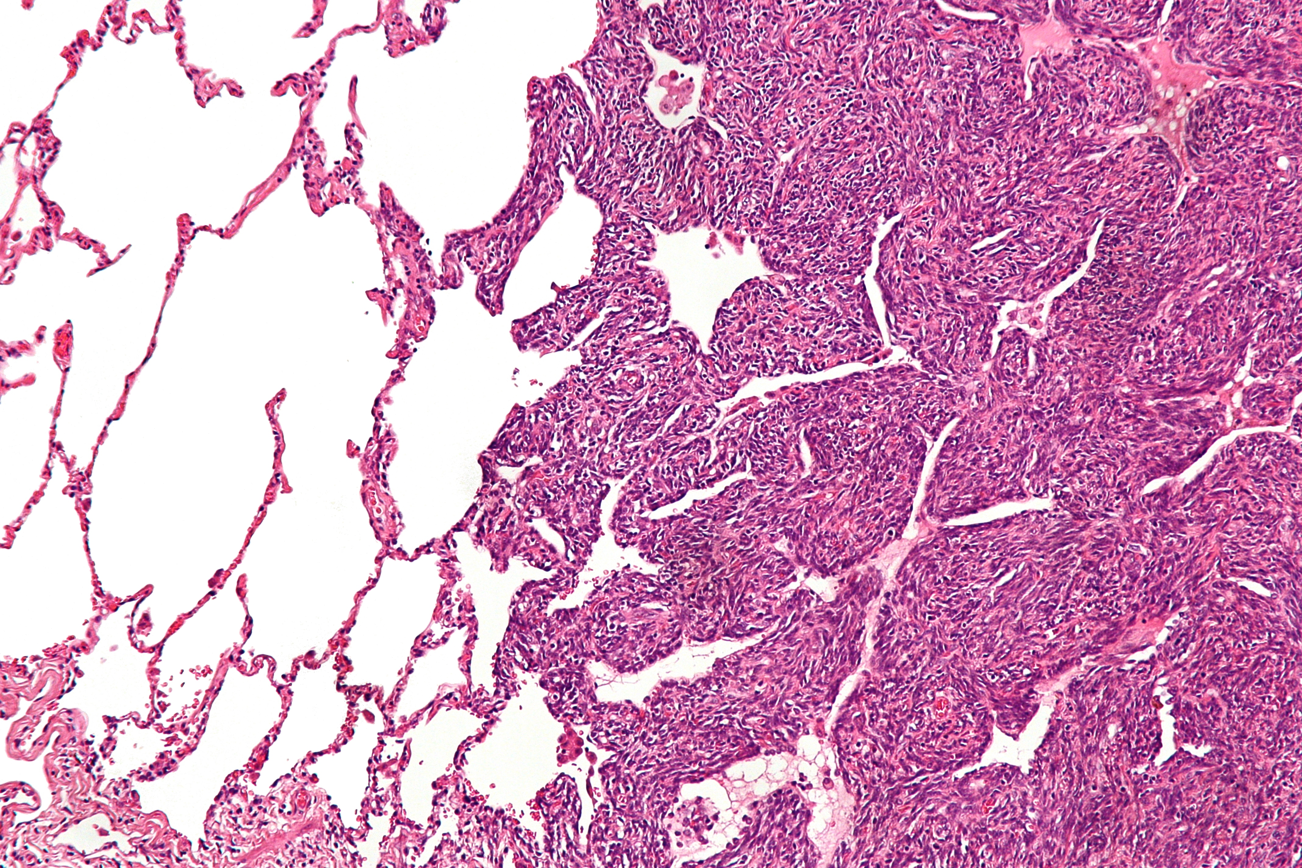 Intermediate magnification micrograph of a monophasic synovial sarcoma. Lung. H&E stain. The histologic features monophasic synovial sarcomas overlap with other entities that have a herring bone pattern (e.g. MPNST, fibrosarcoma). Related images Intermed. mag. High mag.